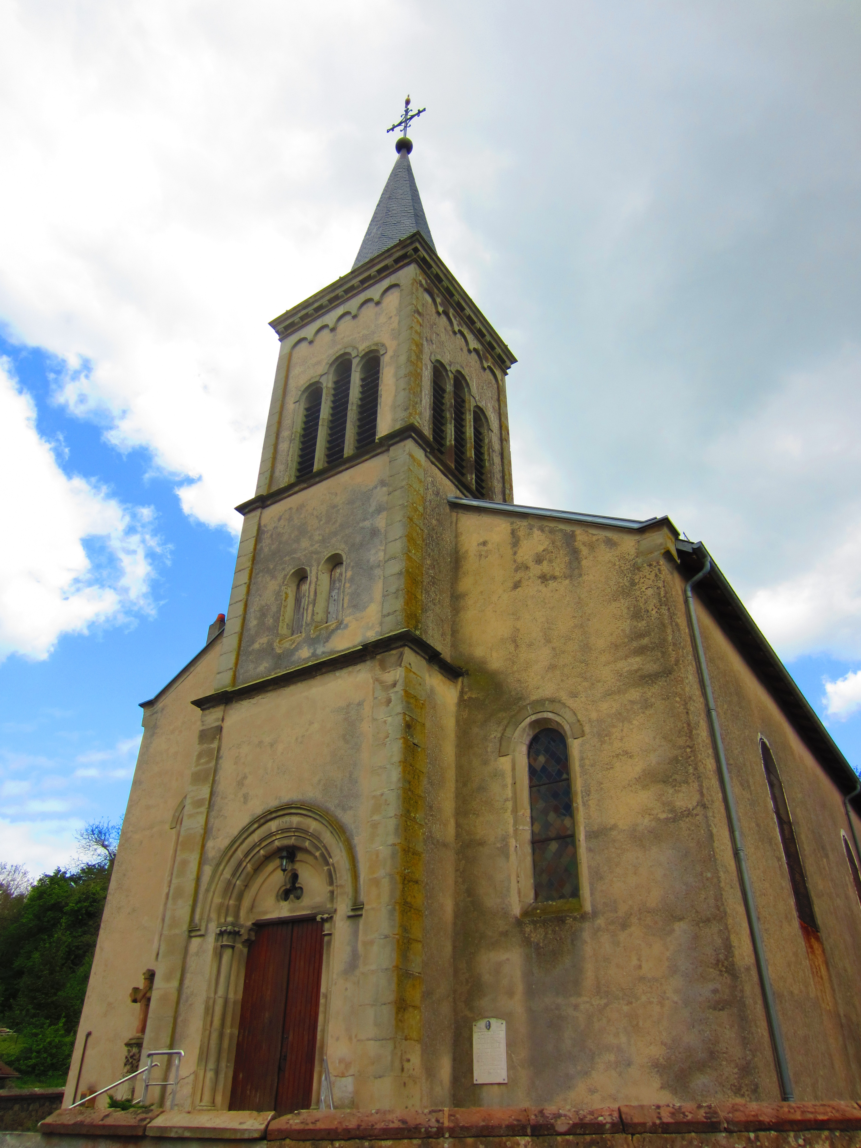 Remelfang church